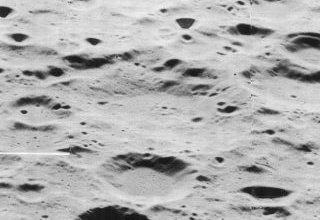 Oblique view of Becquerel crater, facing west